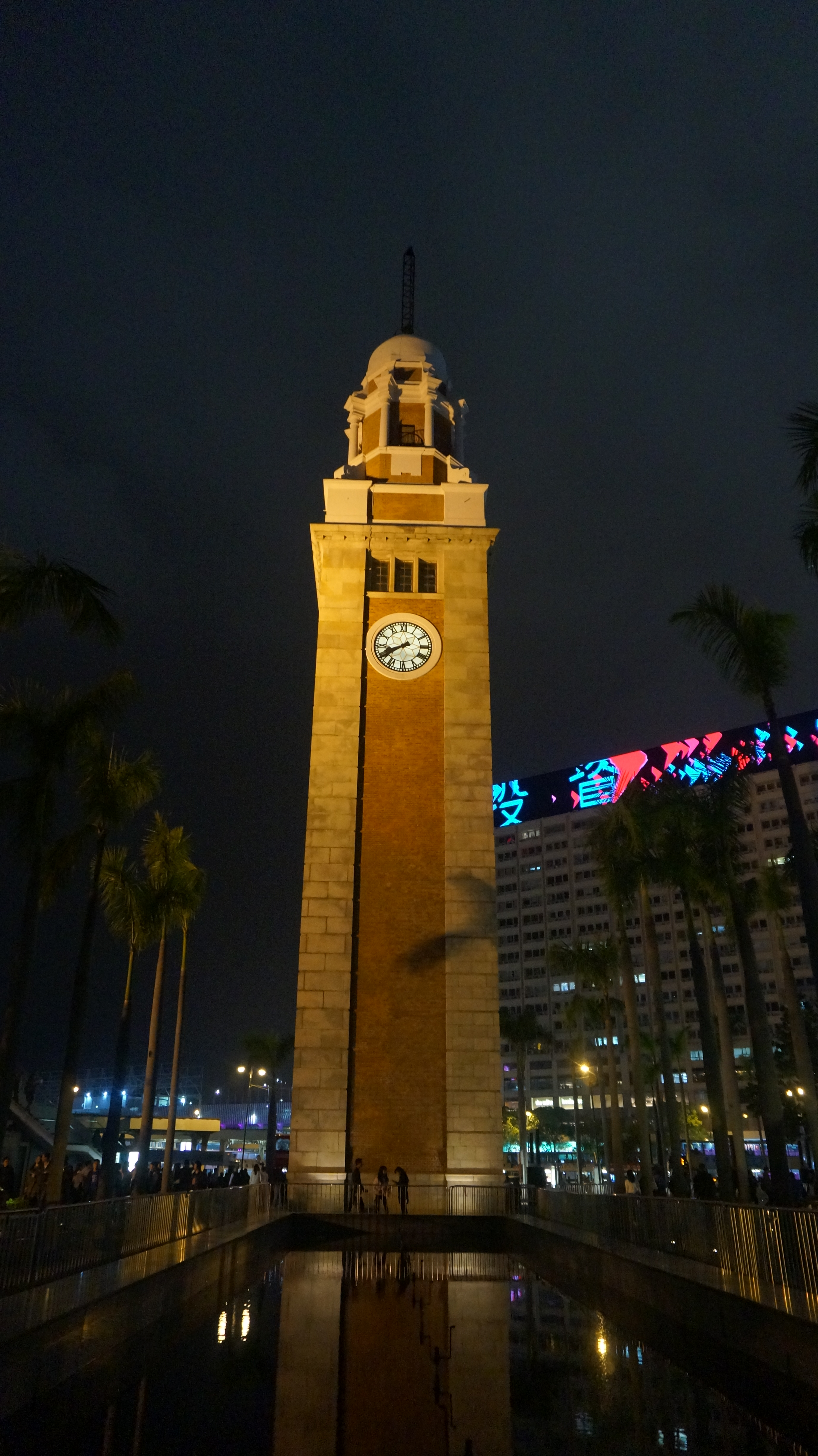 Hong Kong Clock Tower